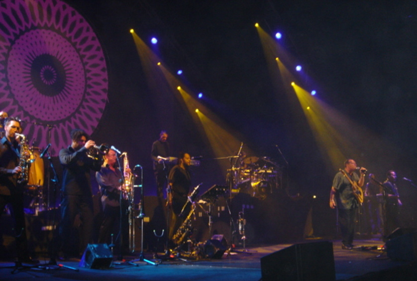 Picture of UB40 performing in Wellington New Zealand, 2004